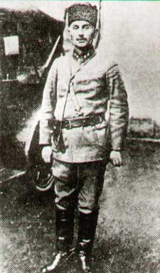 Lieutenan Colonel of Militia Topal Osman Agha